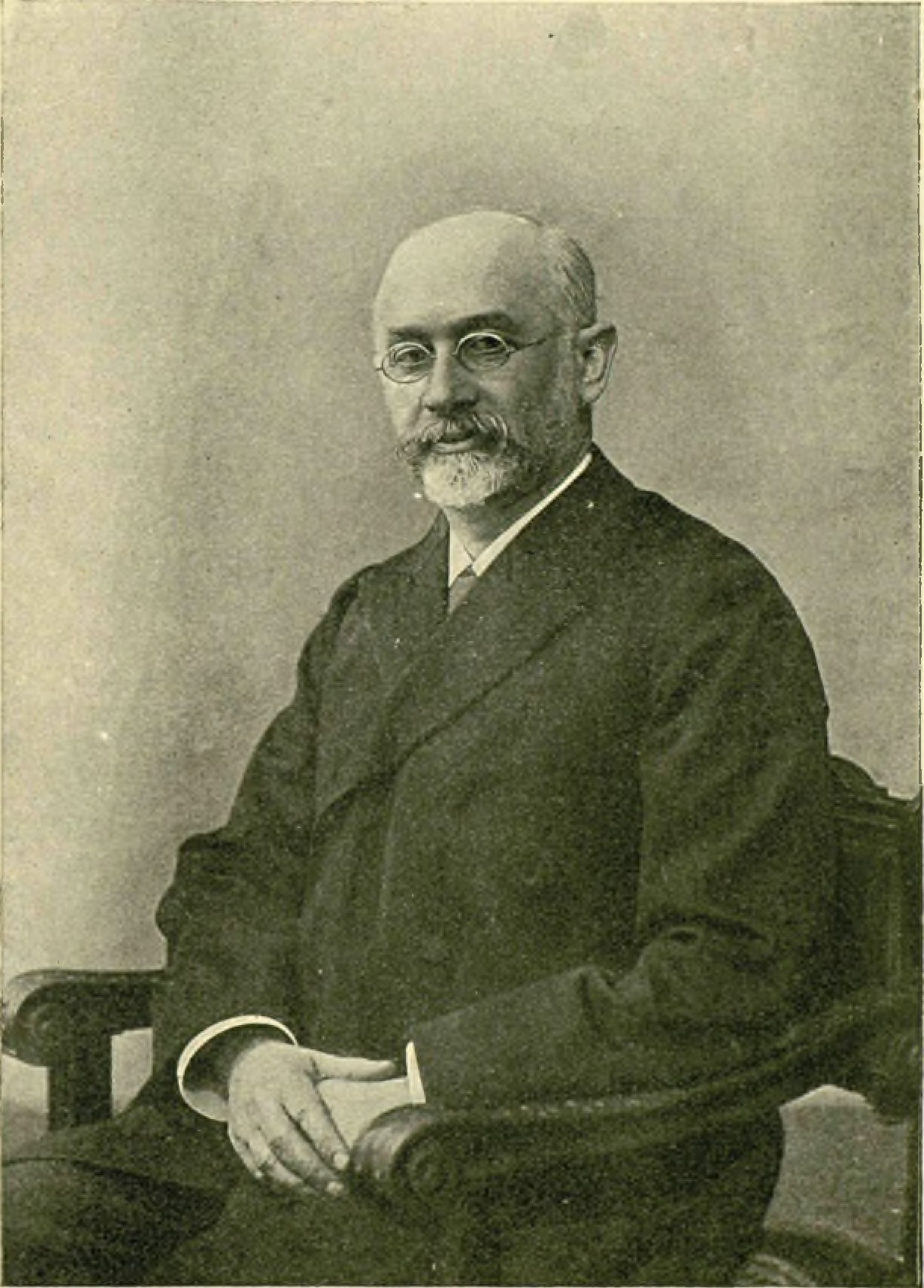 The photo of Mikhail Herzenstein (1859–1906)